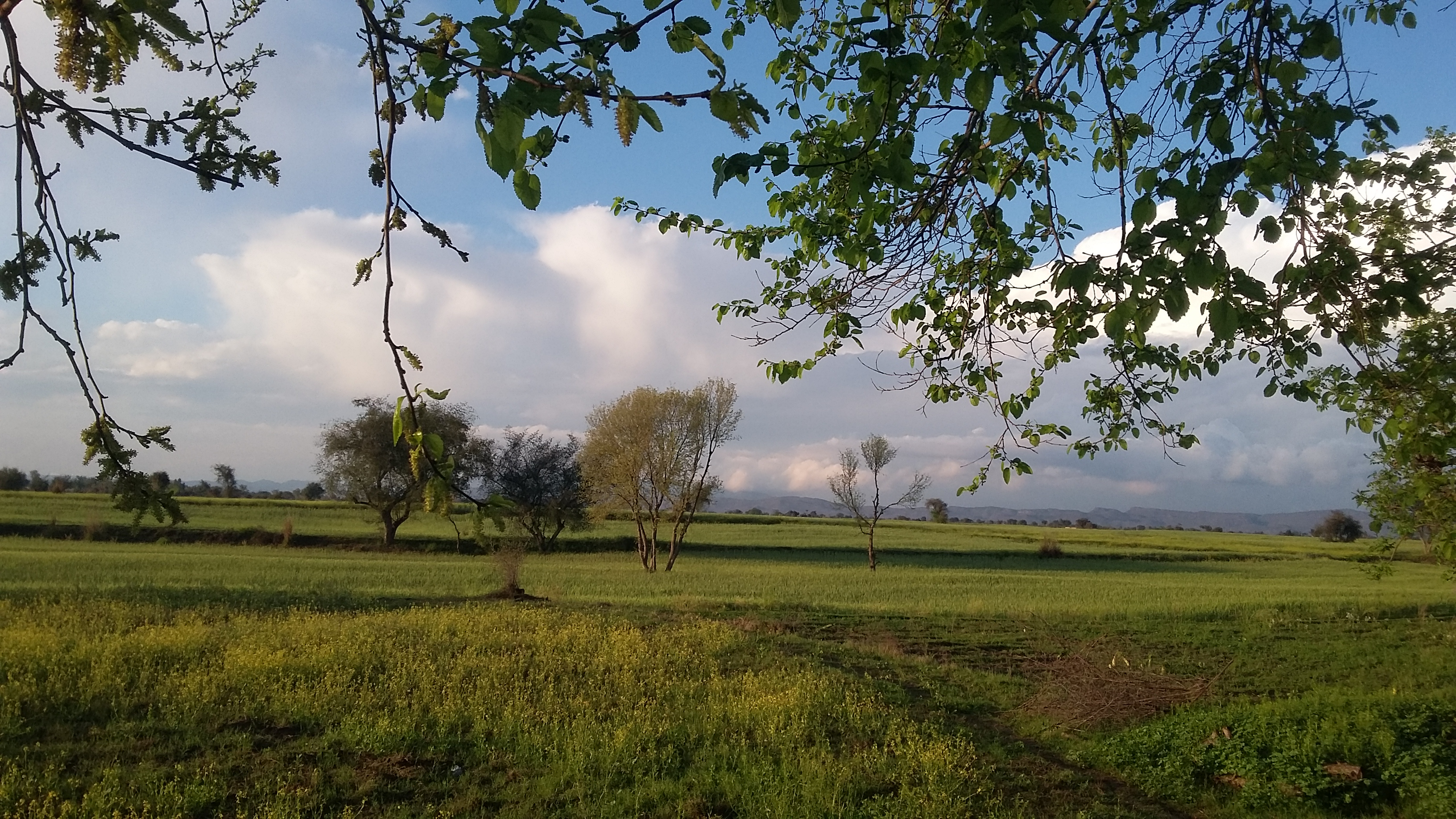 a view of green wheat fields near attock,punjab